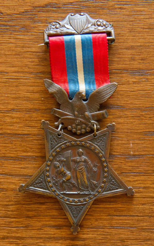 Medal of Honor issued to Maj. George H. Palmer on March 10, 1896, for valor at the Battle of Lexington, Mo., Sept. 20, 1861. Currently (2015) in the collection of his great-great grandson, David A. Luff of Ventura, Calif.